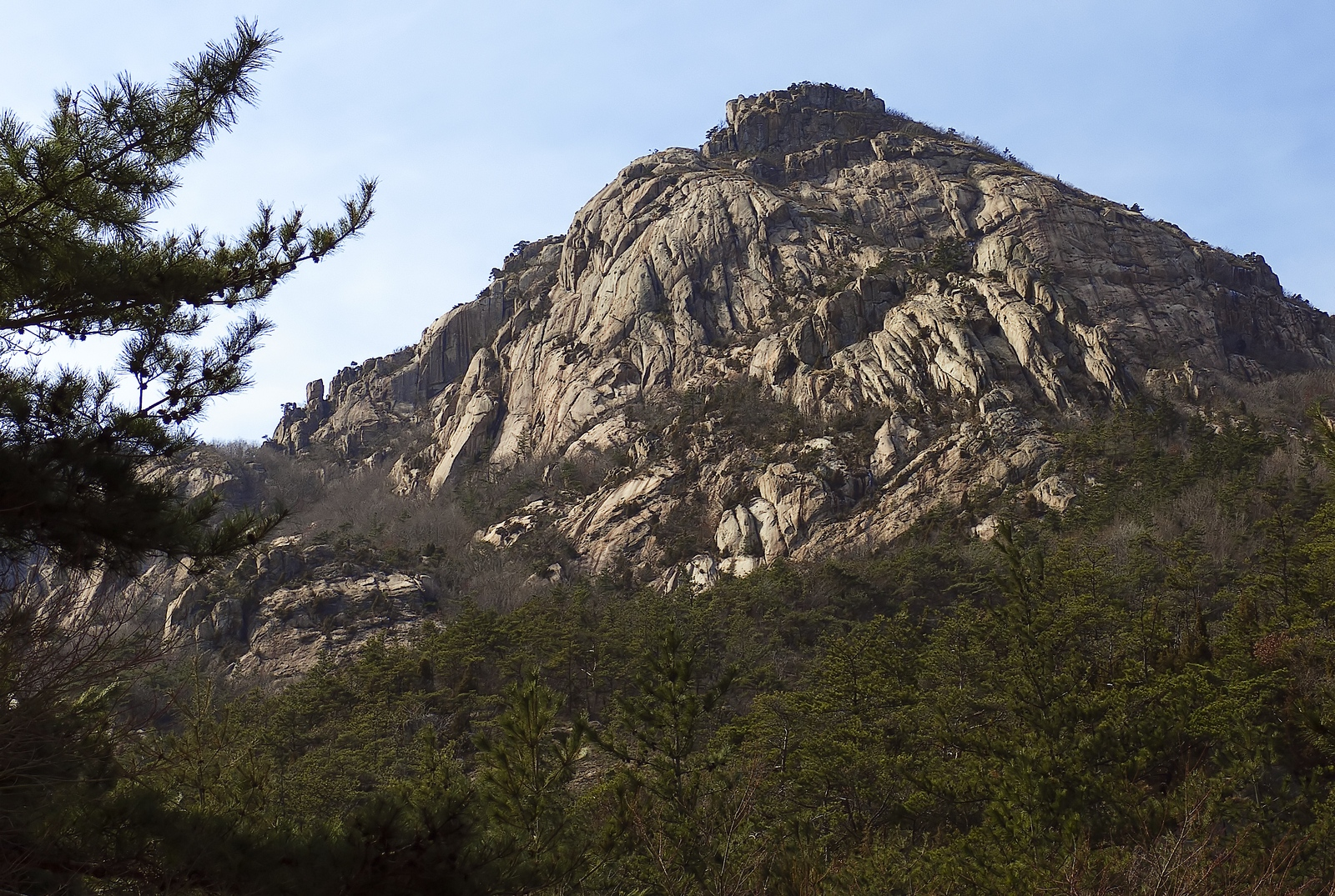 A view of the highest peak of Wolchulsan. Photo: User:fbjon, February 2006.